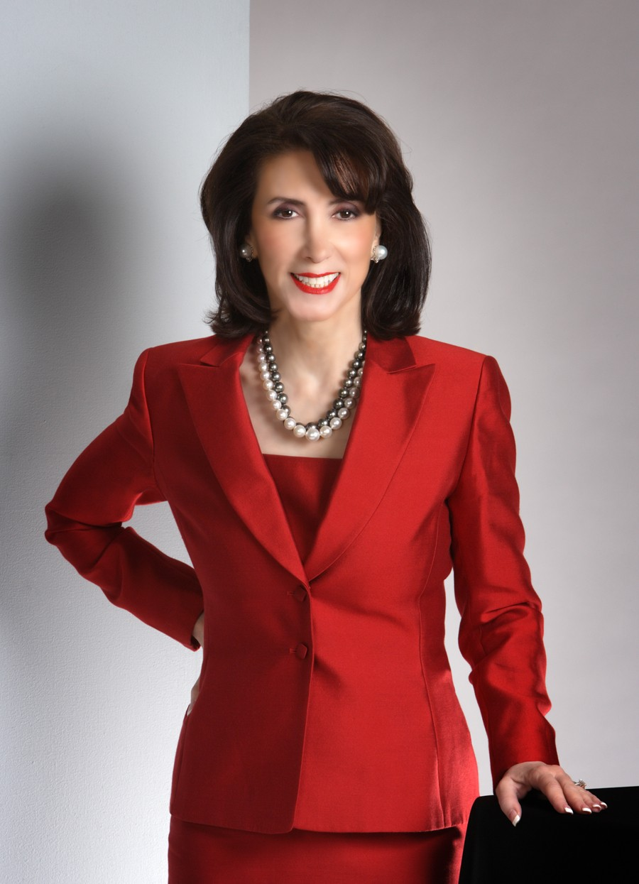 The image is of Linda L. Addison.